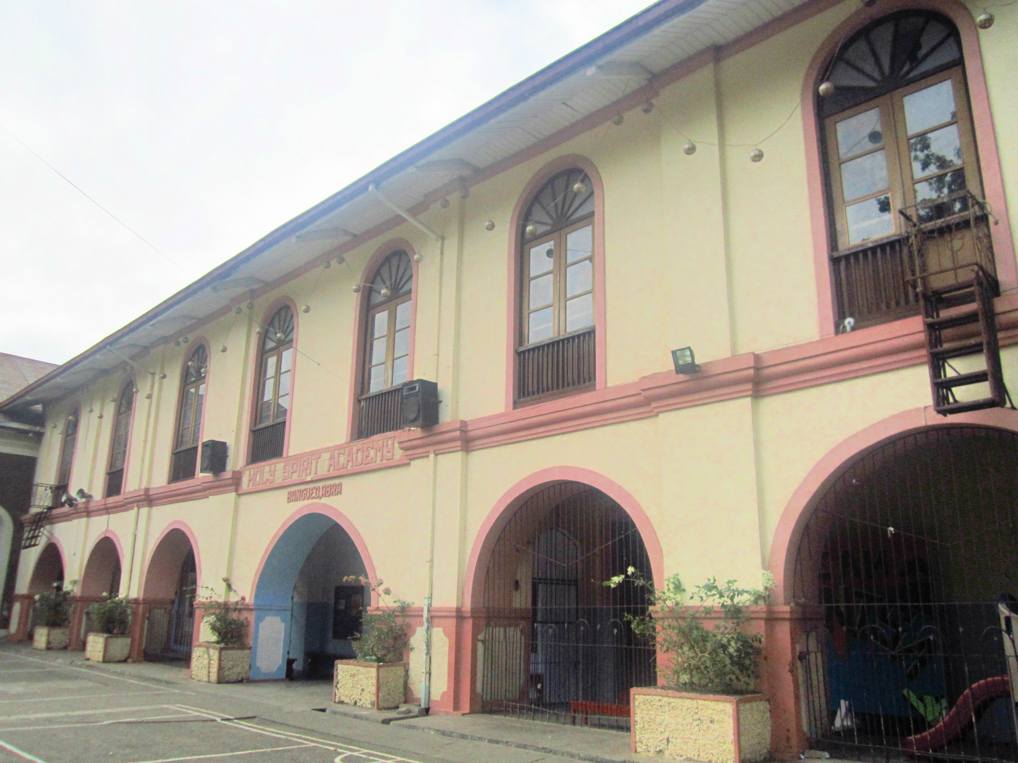 An old convent beside St. James the Elder Cathedral Parish.